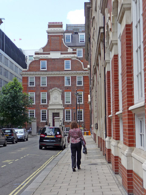 Matthew Parker Street, London SW1 Matthew Parker Street as seen from Storey's Gate. Picture shows CCHQ which occupies ground and basement.